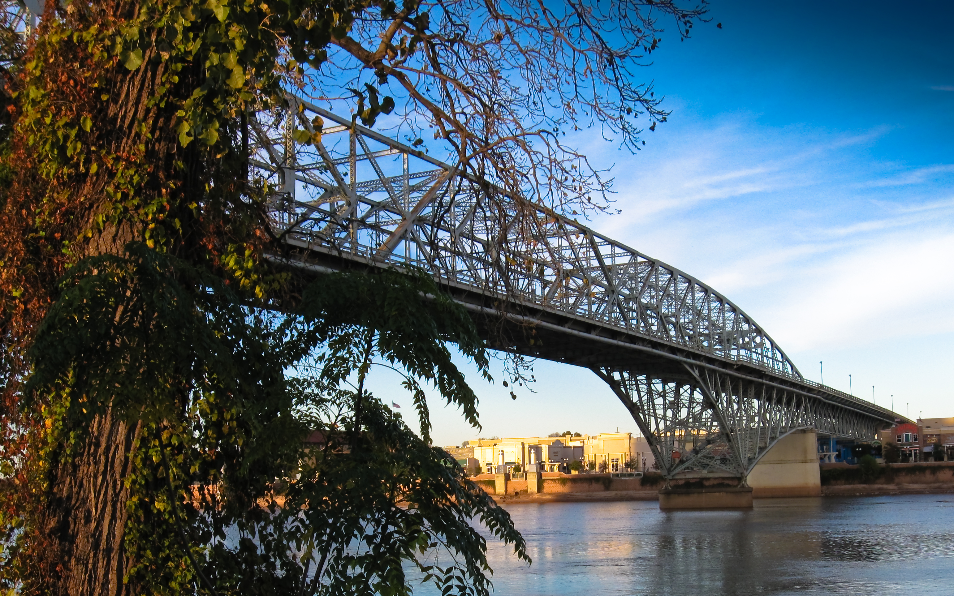 Texas Street Bridge connecting Shreveport with Bossier City